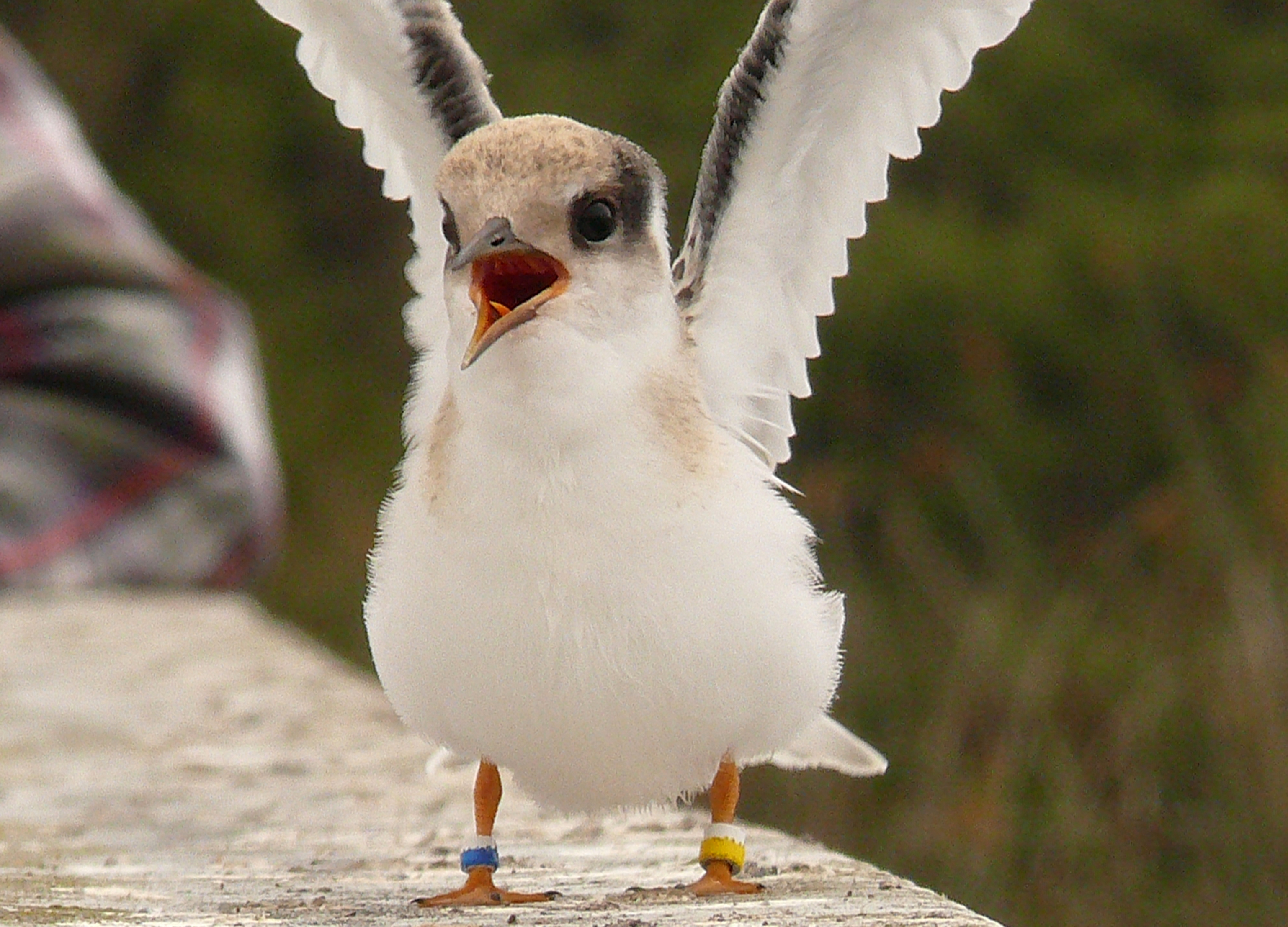 Least Tern Sternula antillarum brownii, Oso Flaco, California USA. Sporting colorful bands on each leg, this one is about to receive a fish from its parent.